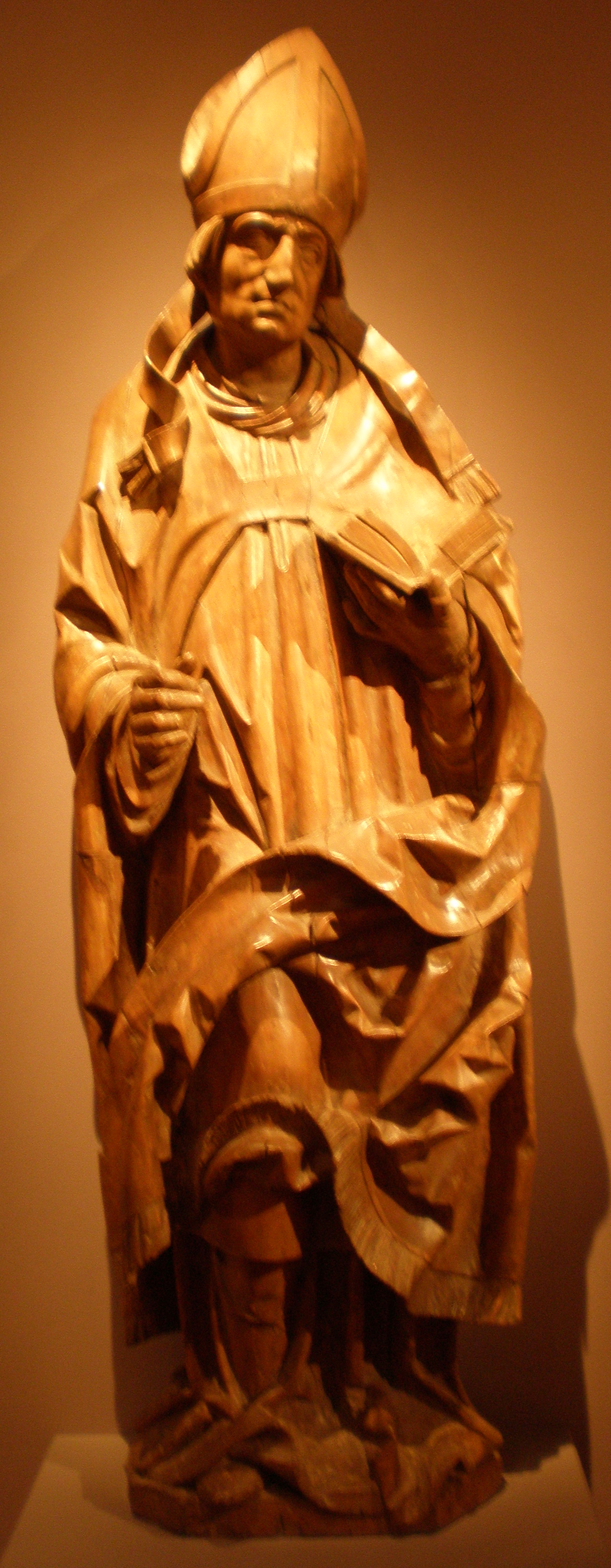 "Saint Boniface", in the style of Hans Backoffen, active 1509-19, ca. 1500, lindenwood, Middle Rhenish or Lower Franconian, Germany. On display at the California Palace of the Legion of Honor in San Francisco. 46.8.1